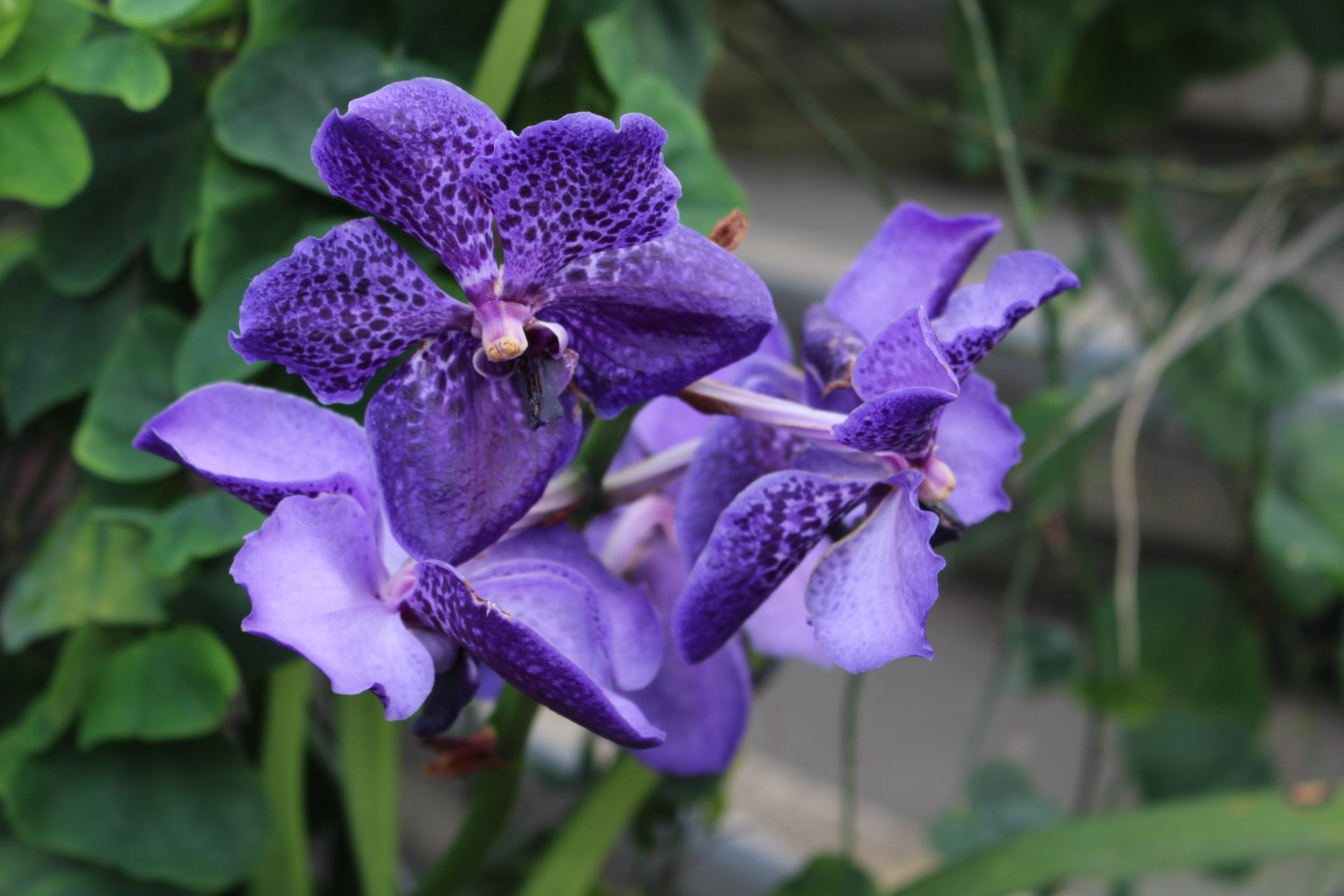 Blue orchid, blue vanda or autumn lady's tresses (Vanda coerulea hybrid) in Kew Gardens, England.